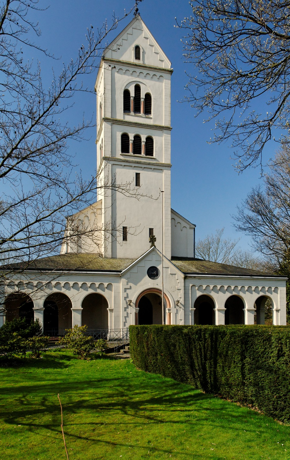 Castle Church in Düsseldorf-Eller, Germany